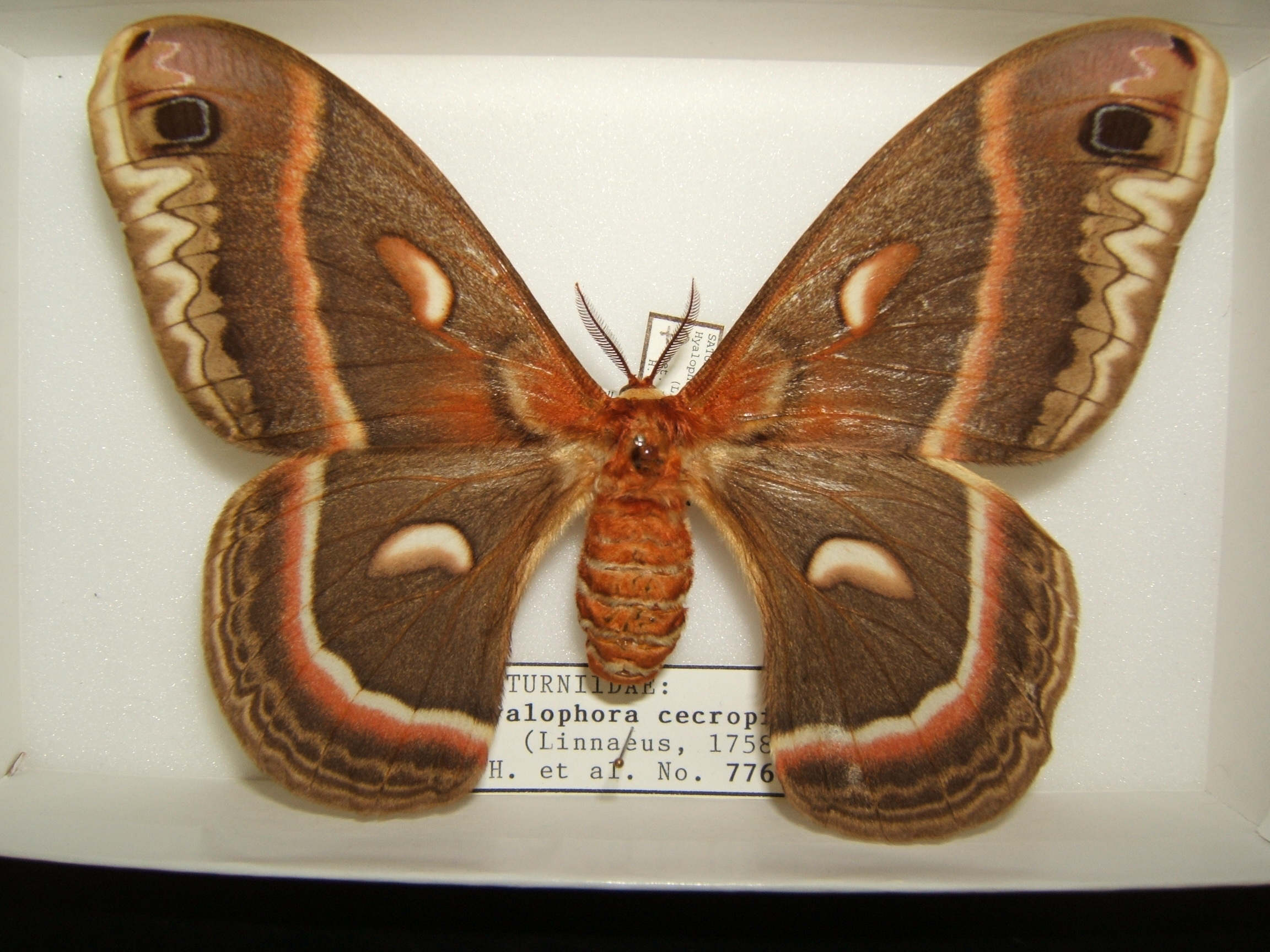 Hyalophora cecropia adult female taken by Shawn Hanrahan at the Texas A&M University Insect Collection in College Station, Texas.